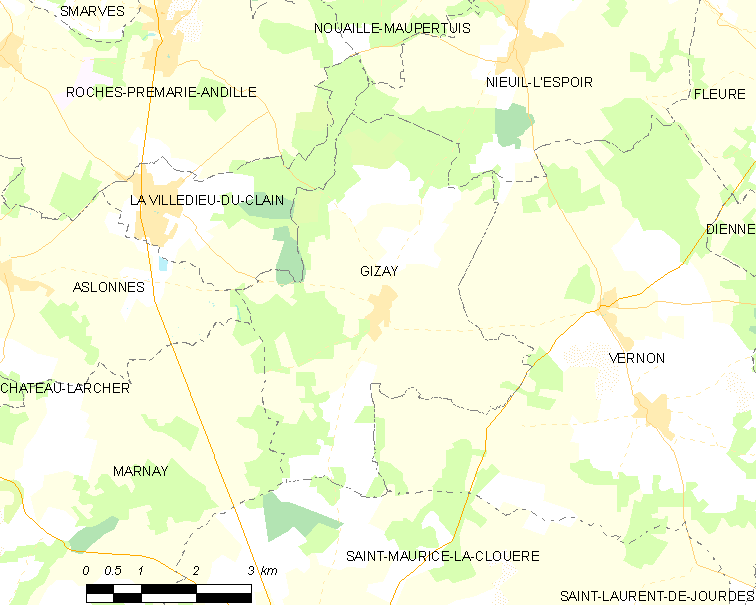 Map of French municipality Gizay